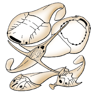 Galeaspids are known from the Silurian and Devonian of China and Vietnam. They are characterized by a large, median dorsal inhalent opening and a scallopped pattern of the sensory-lines. Their mouth and gill openings are situated on the ventral surface of the head (top right). In the most primitive forms, such as the Silurian genus Hanyangaspis (top), the median dorsal inhalent opening is broad and situated anteriorly. In other galeaspids, its is more posterior in position and can be oval, rounded, heart-shaped or slit-shaped. In some Devonian galeaspids, such as the hunanaspidiforms Lungmenshanaspis (middle) and Sanchaspis (bottom right), the headshield is produced laterally and anteriorly into slender processes. The eugaleaspidiforms, such as Eugaleaspis (bottom left) have a horseshoe-shaped headshield and a slit-shaped median dorsal opening, which mimates the aspect of the headshield of osteostracans.